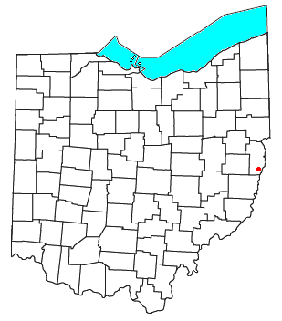 Locator map of the unincorporated community of Hopewell in Jefferson County, Ohio, United States.